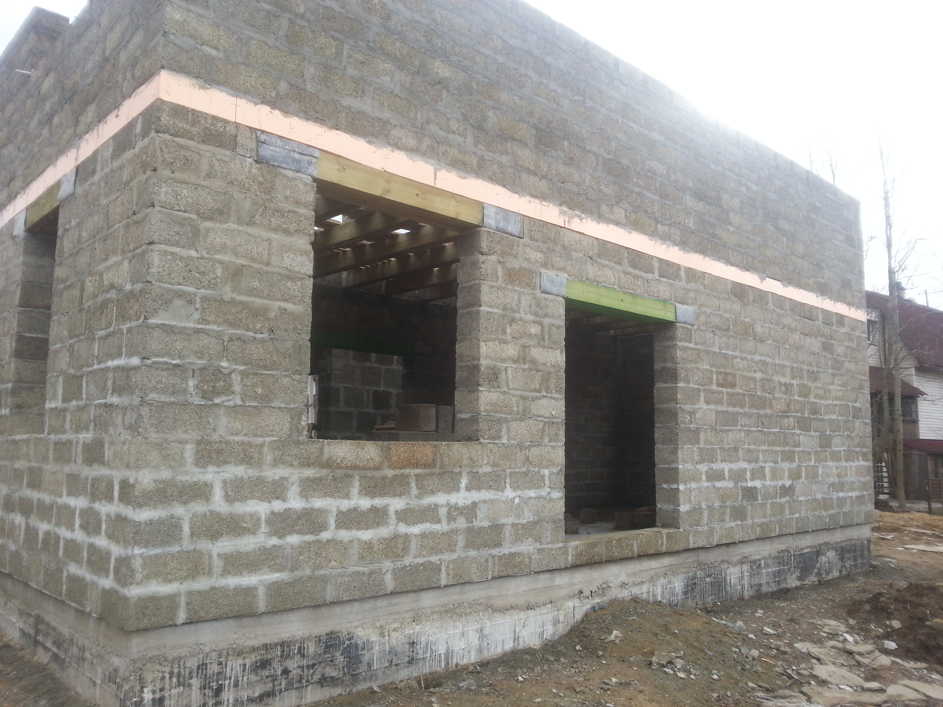 House arbolita